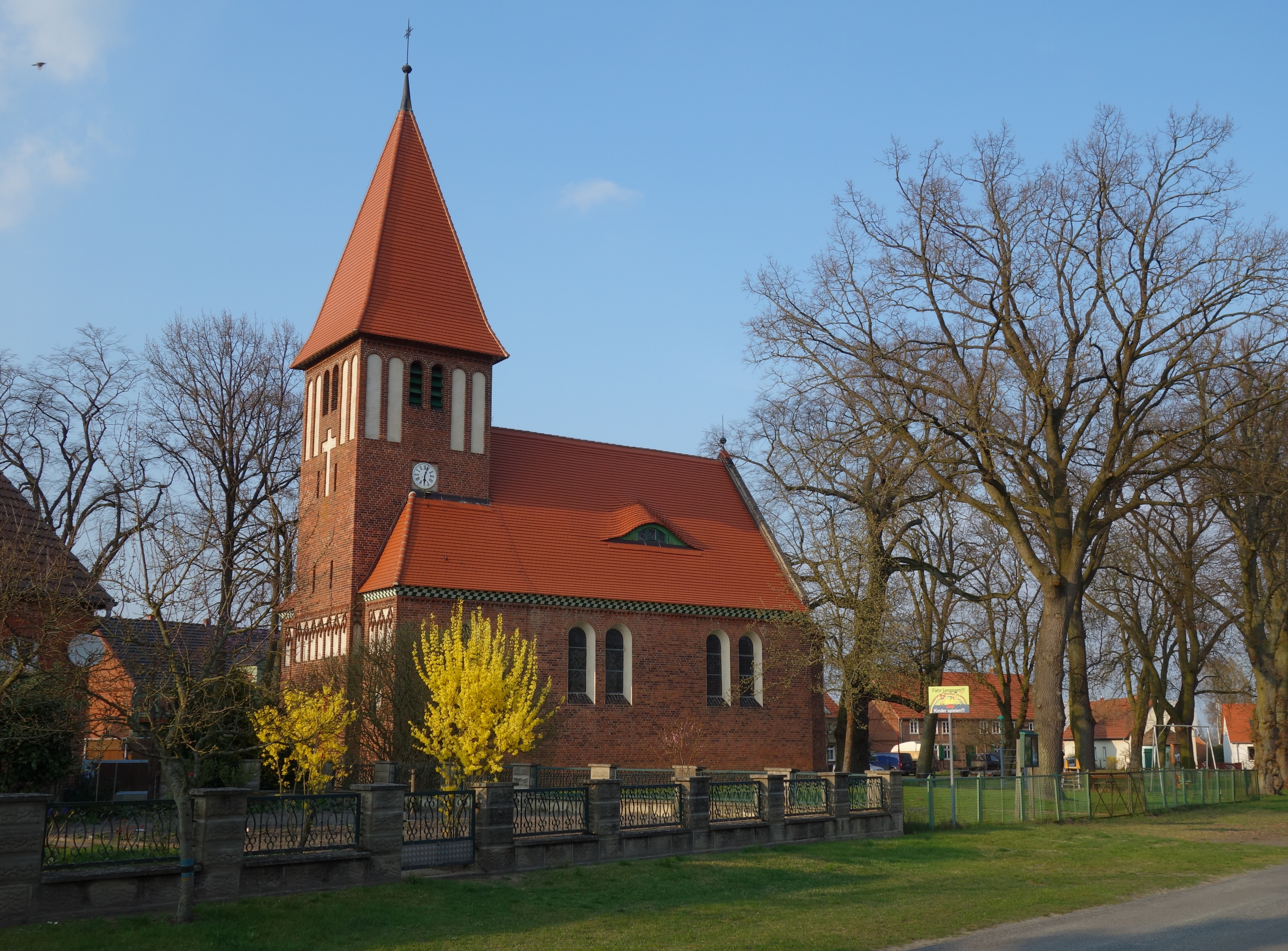 South-western view of church in Damelack, Breddin municipality, Ostprignitz-Ruppin district, Brandenburg state, Germany